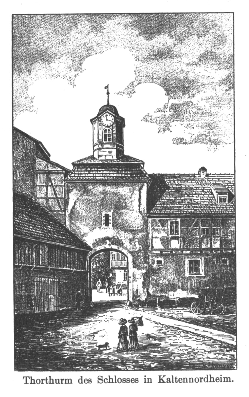 A drawing of the gate in Kaltennordheim.